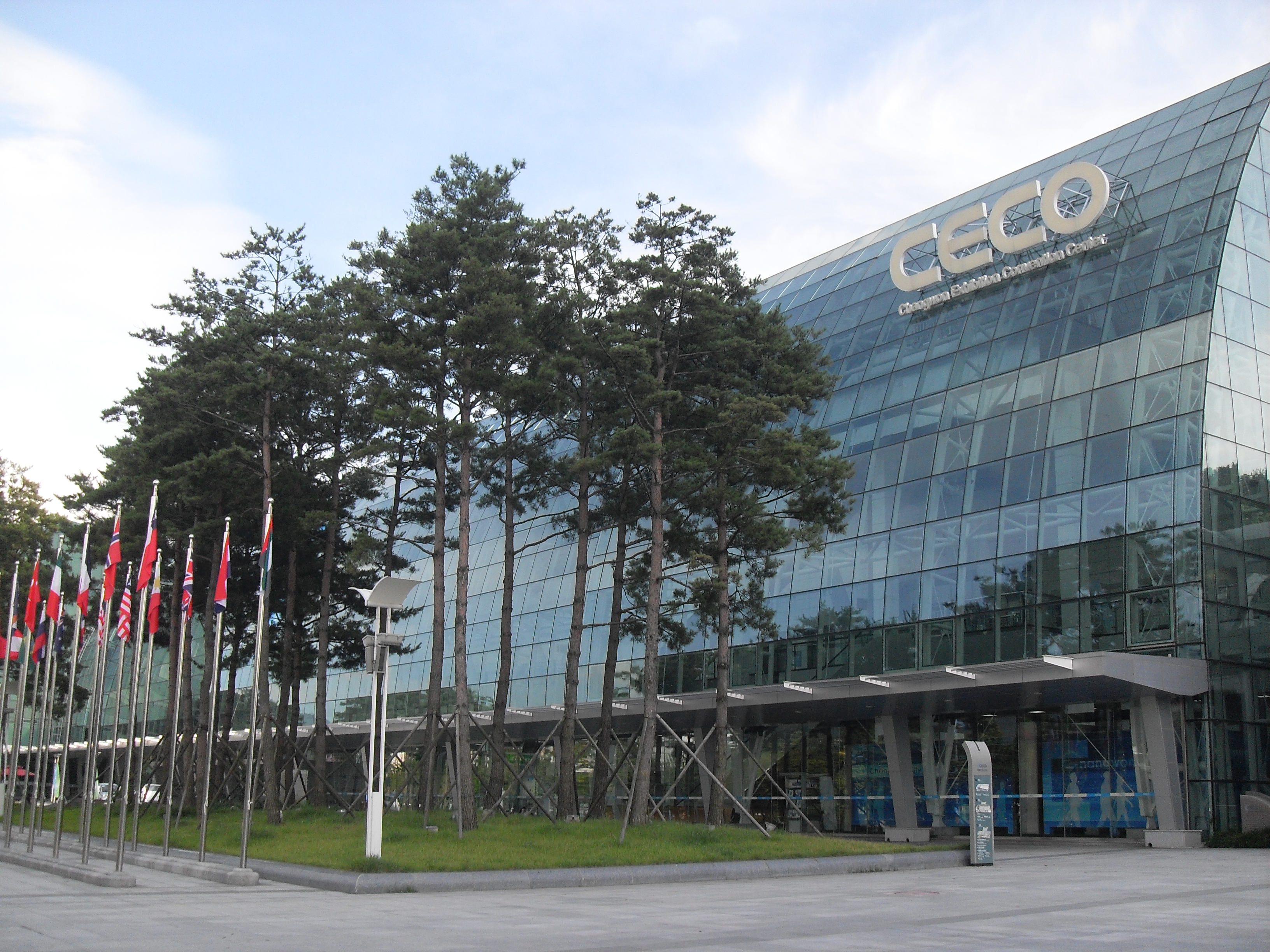 CECO, a convention center located in Uichang-gu, Changwon, South Korea.